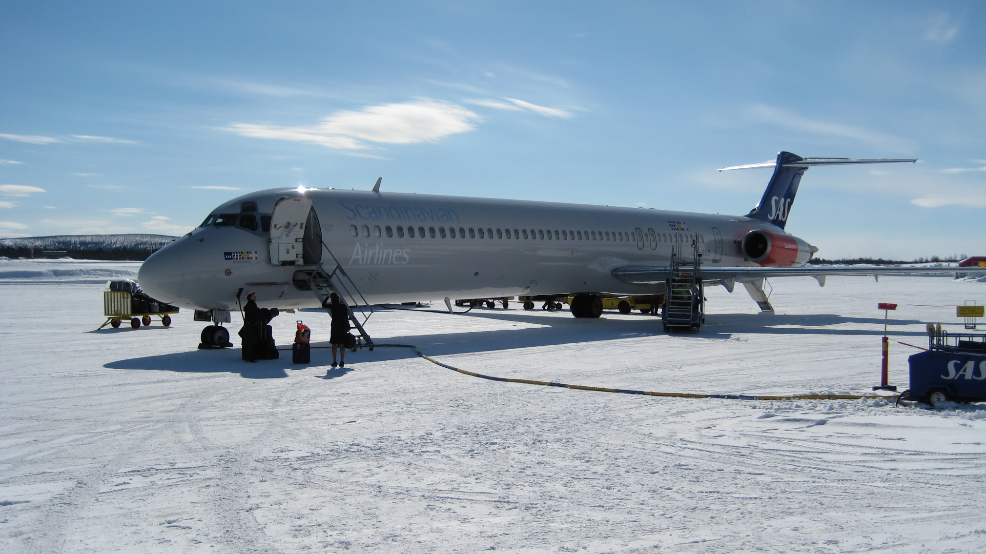 Scandinavian Airlines (SAS) airplane on Kiruna Airport (Sweden)